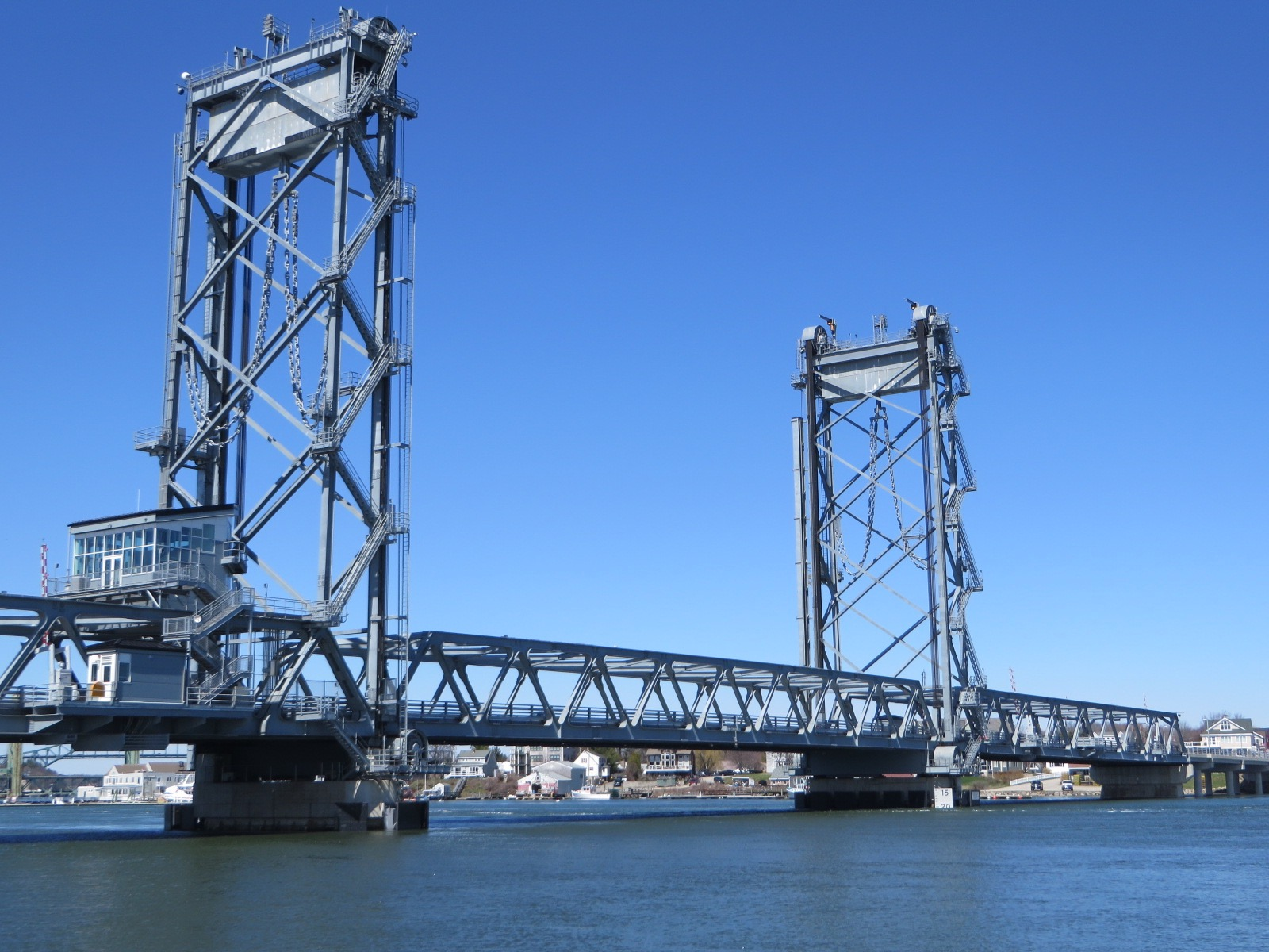 Memorial Bridge, April 2016, from Prescott Park